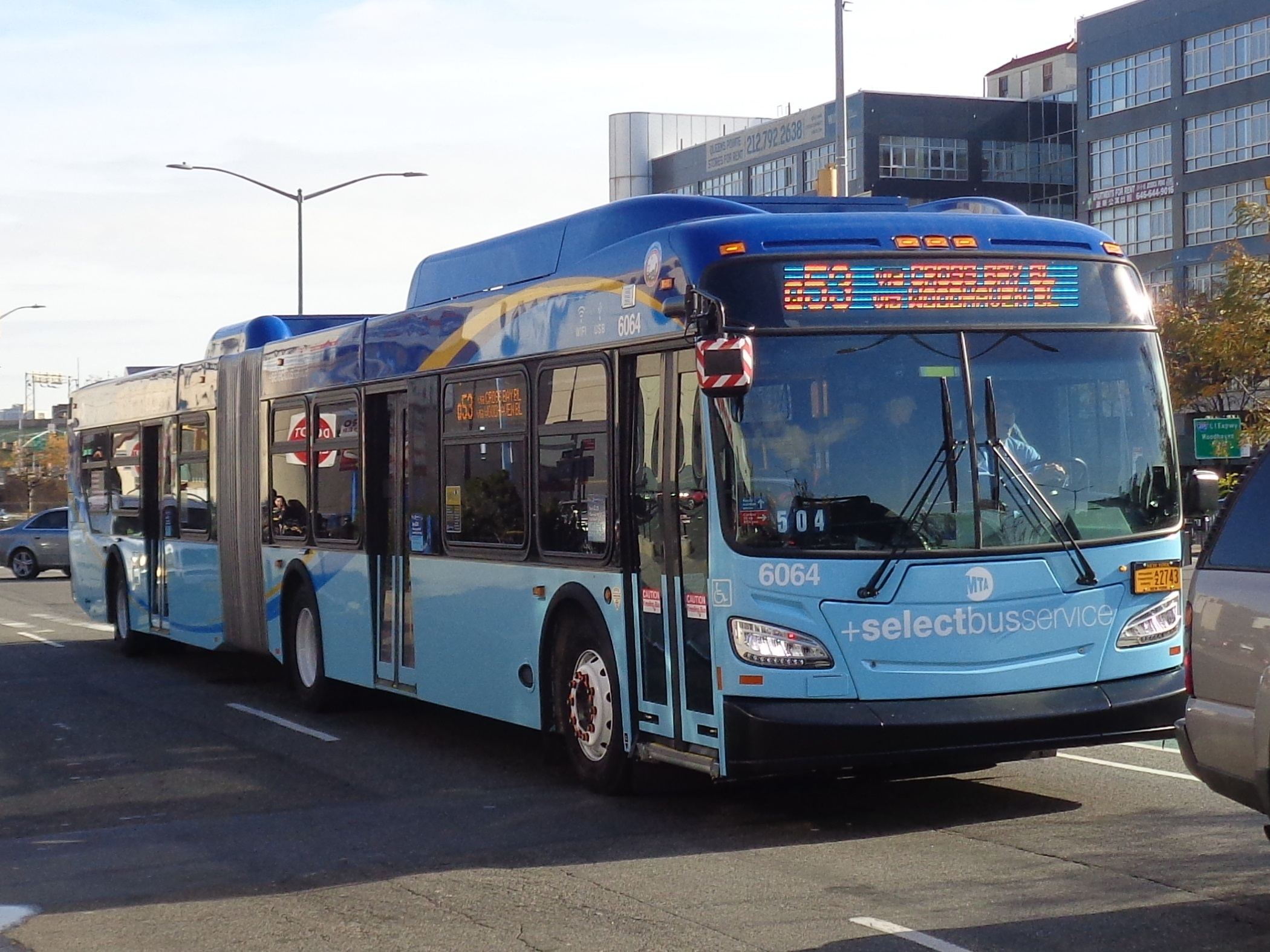 A Woodside-bound Q53 SBS bus at Queens Boulevard between 56th Avenue and 57th Avenue near Queens Center and Queens Place in Elmhurst, Queens. This was the first day of Select Bus Service.